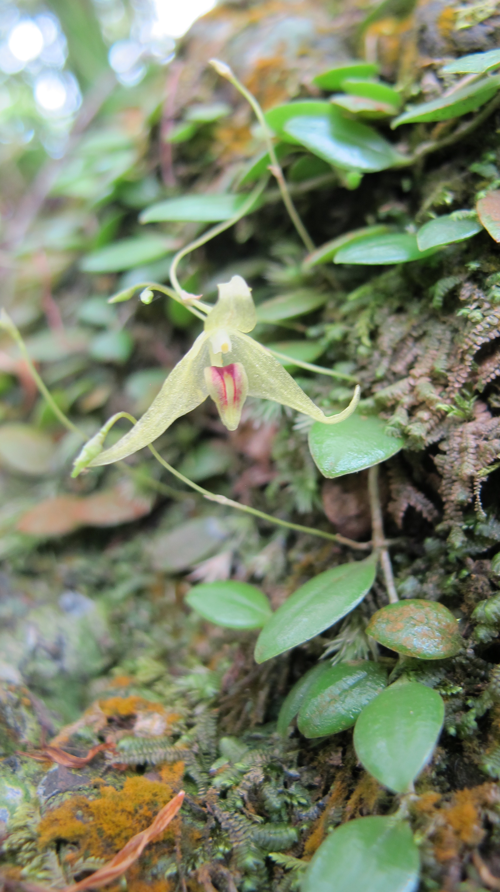 狹萼豆蘭攝於台灣烏來山